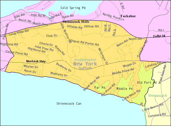 U.S. Census 2000 reference map for Shinnecock Hills